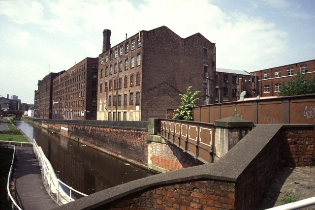 Ancoats Mills. A very important collection of old cotton mills dating back in parts to 1798.